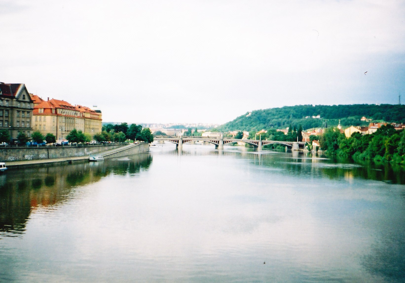 The River Vltava (Moldau) flowing through the city of Prague, July 2001